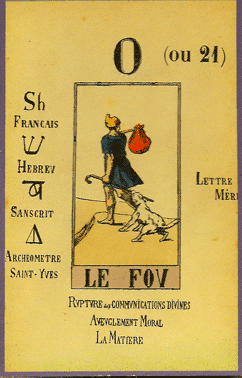 Page with tarot trump design from Papus: Le Tarot Divinatoire. Le Livre des Mystères et les Mystères du Livre. Clef du tirage des cartes et des sorts. Avec la reconstitution complète des 78 lames du Tarot Égyptien et de la méthode d'interprétation. Les 22 arcanes majeurs et les 56 arcanes mineurs. Libr. Hermétique, Paris 1909.